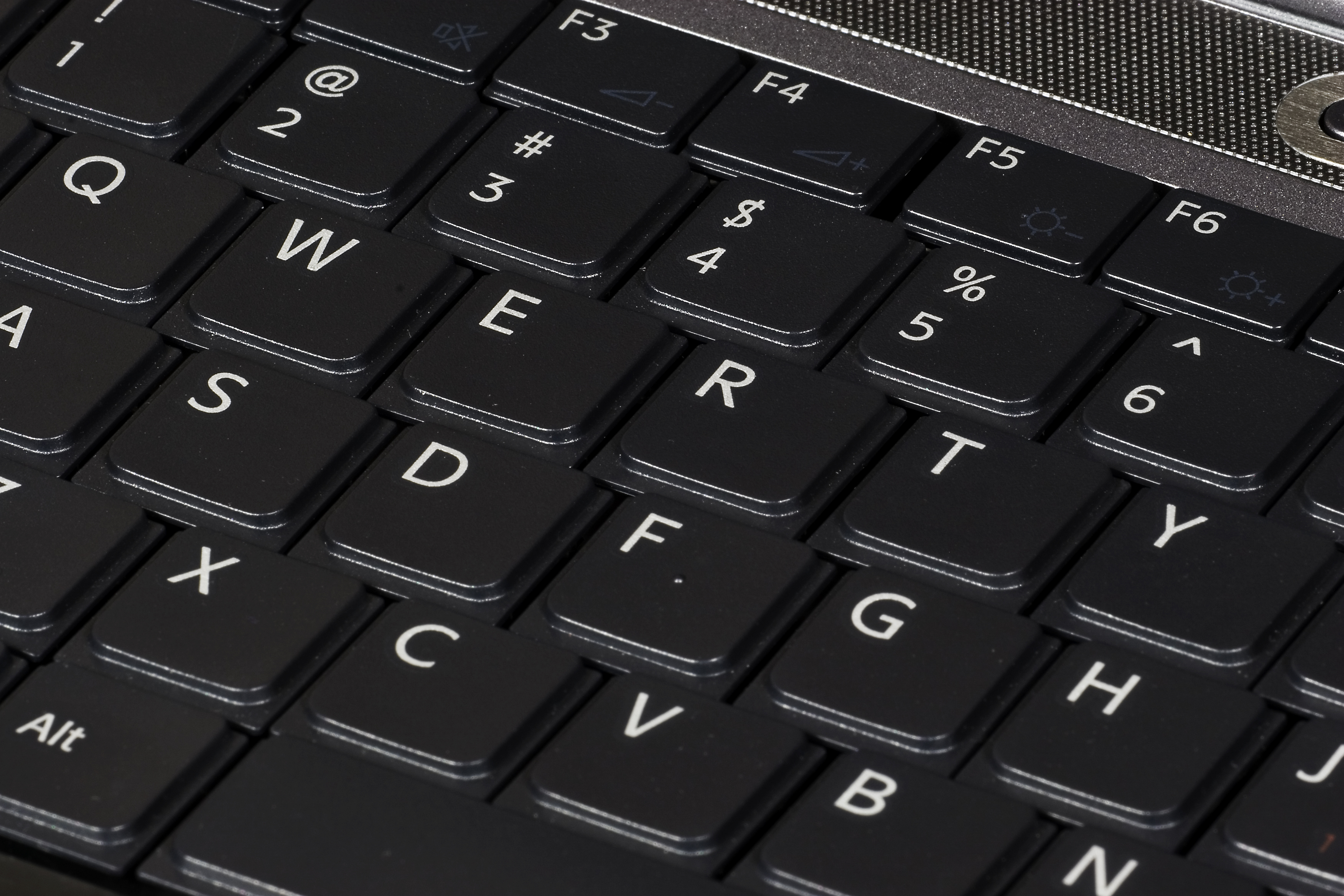 QWERTY keyboard, on 2007 Sony Vaio laptop computer.